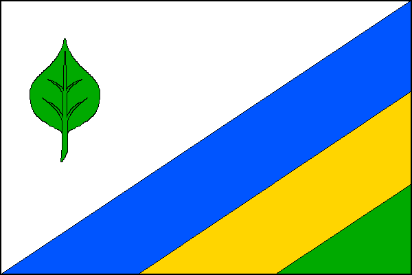 Municipal flag of Opolany , District Nymburk, Czech republic